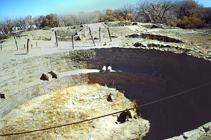 The Salmon Ruins, looking east. The tower kiva is in the foreground.